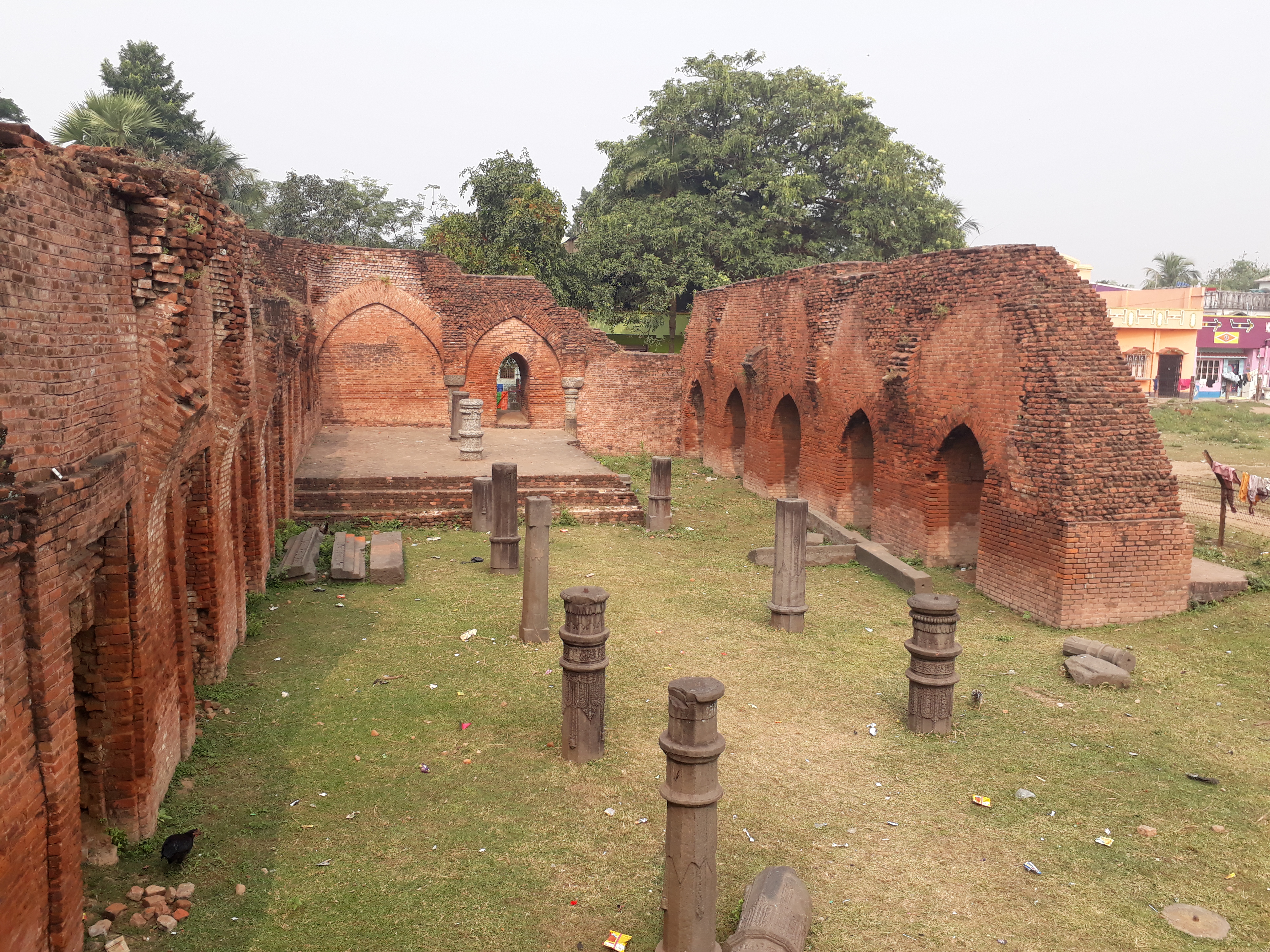 Bari Mosque called Bari Masjid in Pandua. Hooghly.